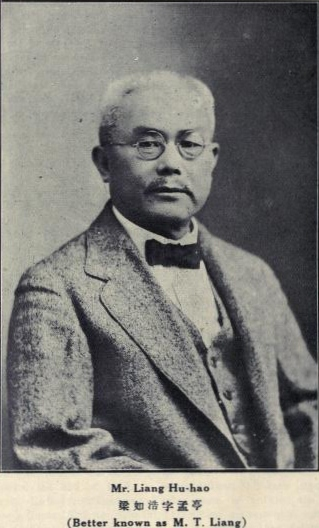 Liang Ruhao, Mengting (M. T. Liang) (1863 - 1941)